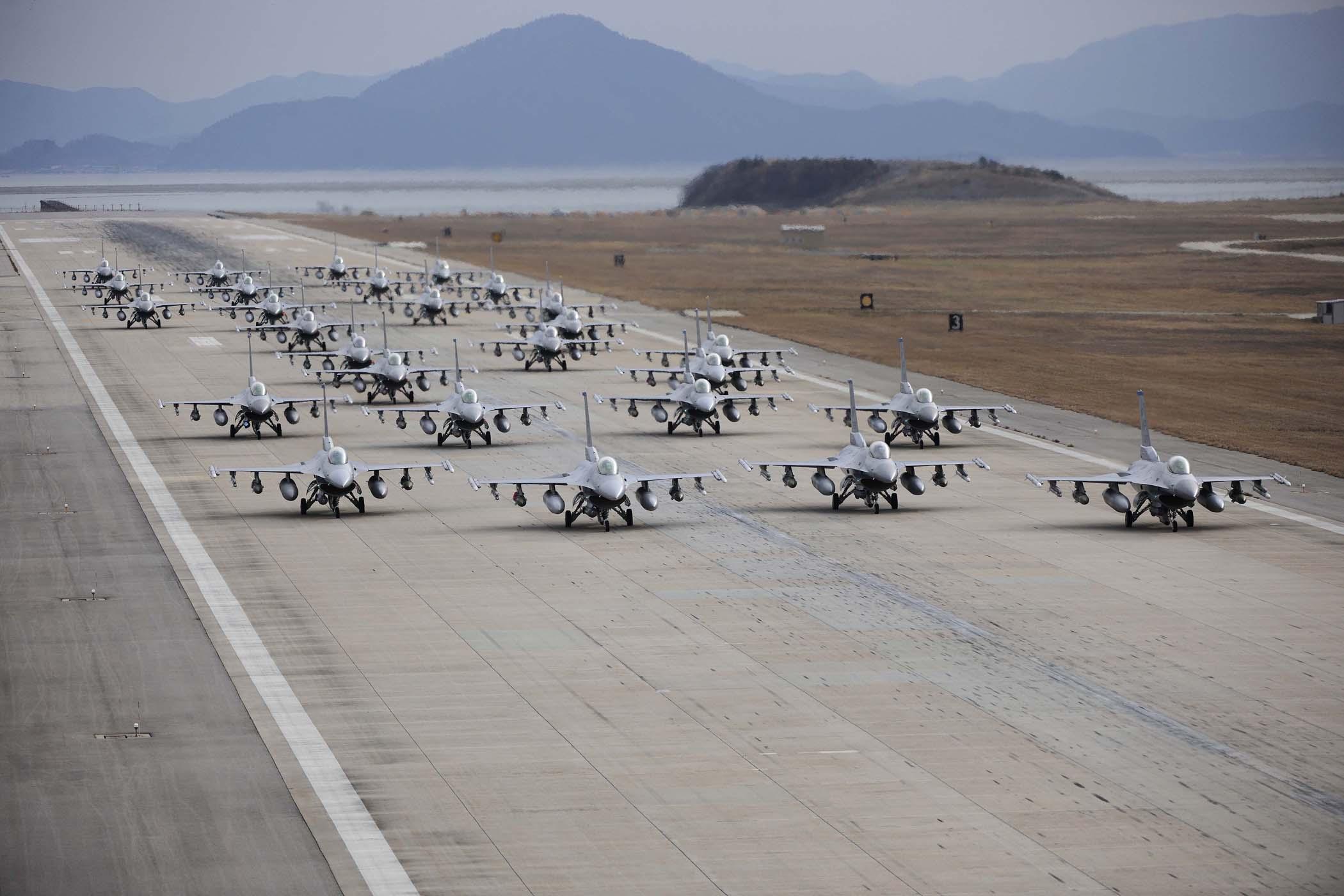 F-16 Fighting Falcons from both the 8th and 419th Fighter Wings demonstrate an "elephant walk" formation as they taxi down a runway during an exercise Dec. 2, 2011, at Kunsan Air Base, South Korea. The exercise showcased Kunsan AB aircrews' capability to quickly and safely prepare an aircraft for a wartime mission. (U.S. Air Force photo/Staff Sgt. Rasheen Douglas)